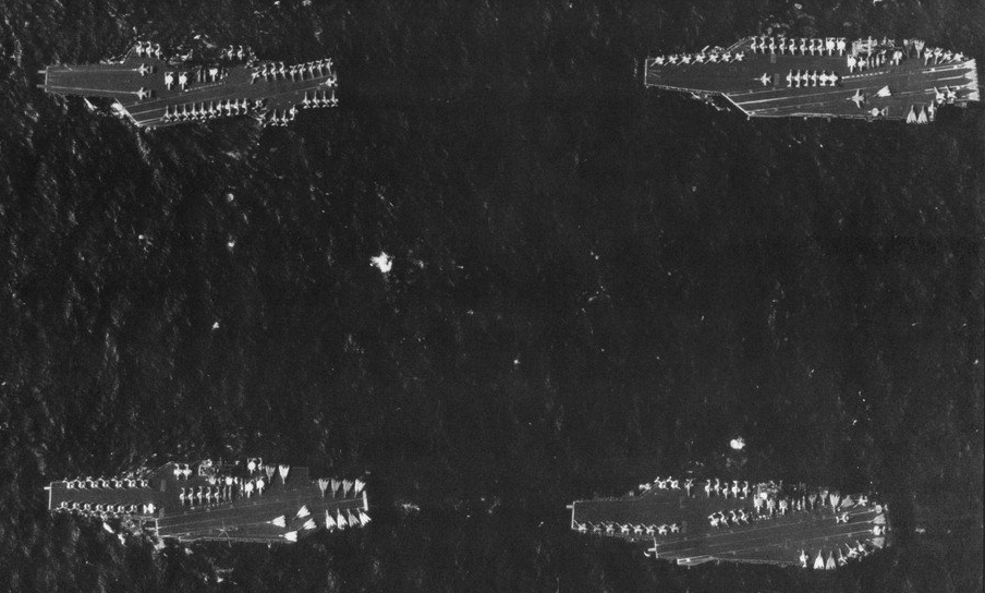 Aerial view of the U.S. Navy aircraft carriers of "Battle Force Zulu" following the 1991 Gulf War: USS Midway (CV-41), upper left; USS Theodore Roosevelt (CVN-71), upper right; USS Ranger (CV-61), lower left; and USS America (CV-66), lower right. 1991年の湾岸戦争時、アメリカ海軍が派遣したズールー戦闘団 (Battle Force Zulu)の空母。左上から時計回りに、「ミッドウェイ」(CV-41)、「セオドア・ローズヴェルト」(CVN-71)、「レンジャー」(CV-61)、「アメリカ」(CV-66)。